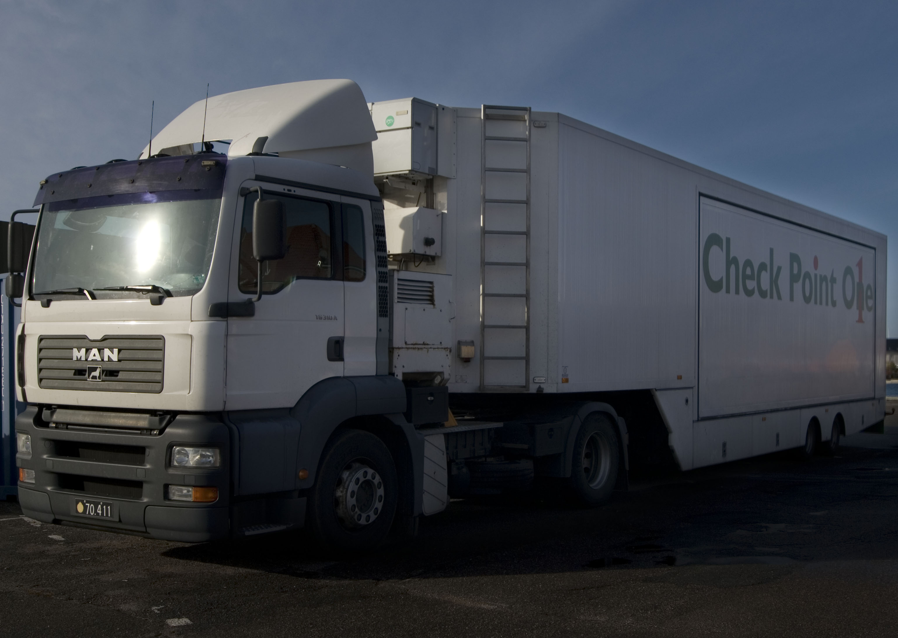 Danish Defence Media Agency promotion truck Check Point One